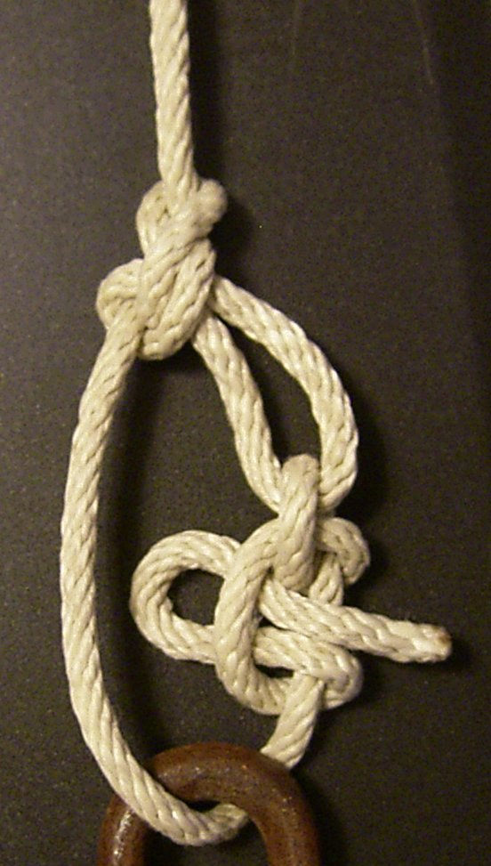 Truckers Hitch with an Alpine Butterfly loop and finished with a slipped double half hitch.